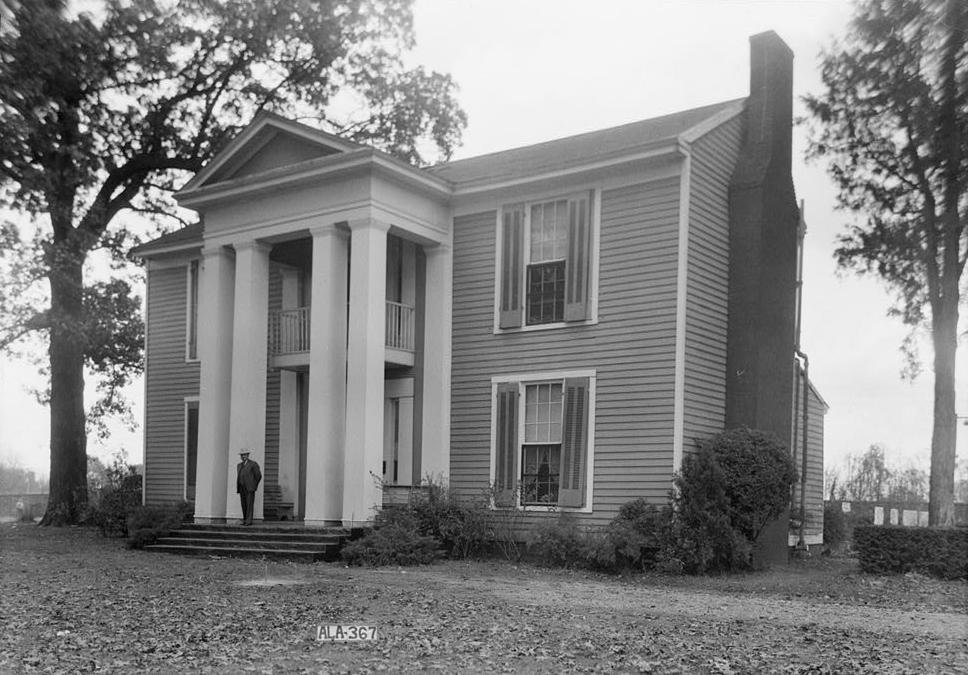 Robert Donnell House, 601 South Clinton Street, Athens, Limestone County, Alabama. Front (west) and south sides.